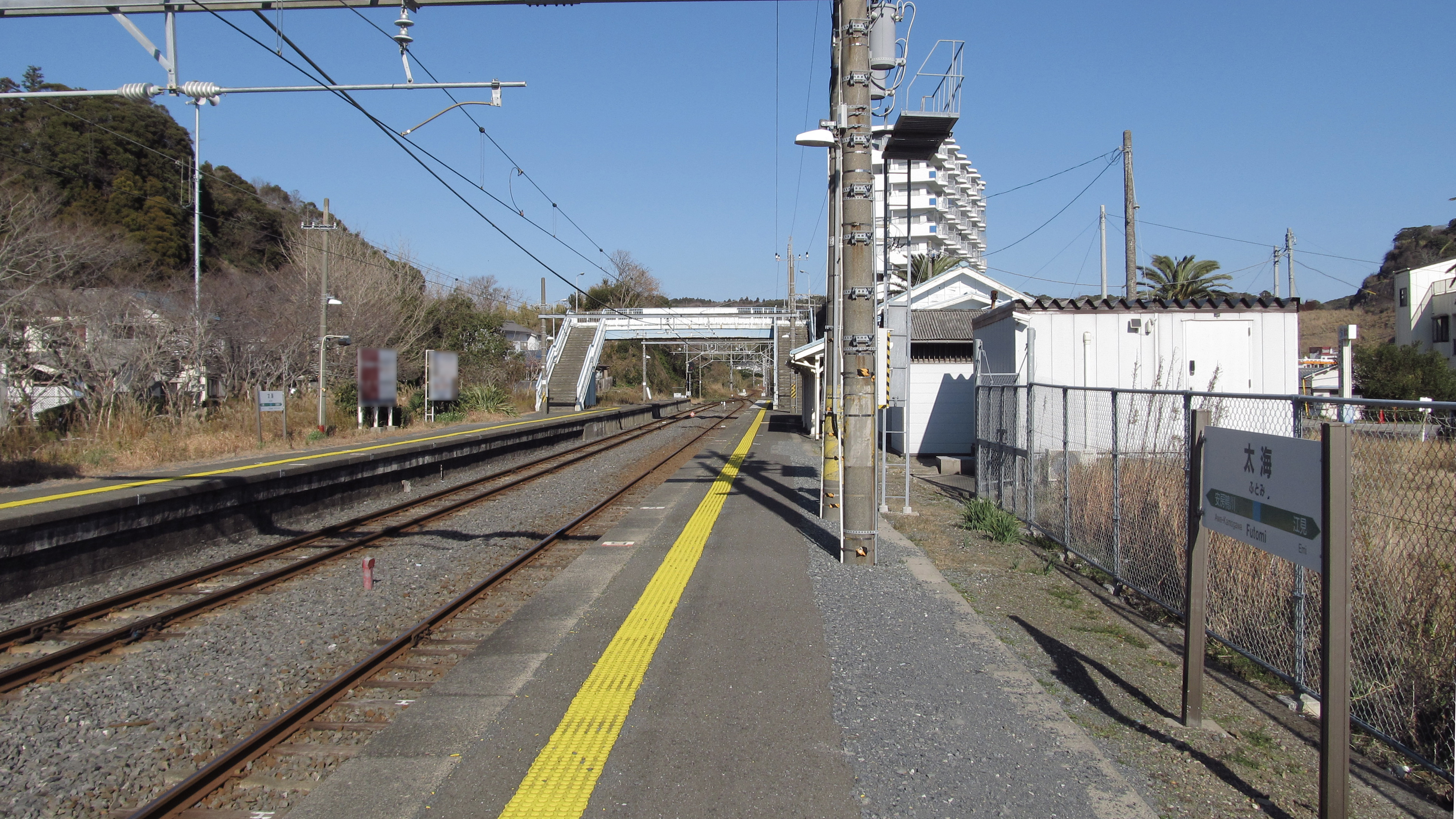 The platforms at Futomi Station on the Uchibō Line in Kamogawa city, Chiba prefecture, Japan